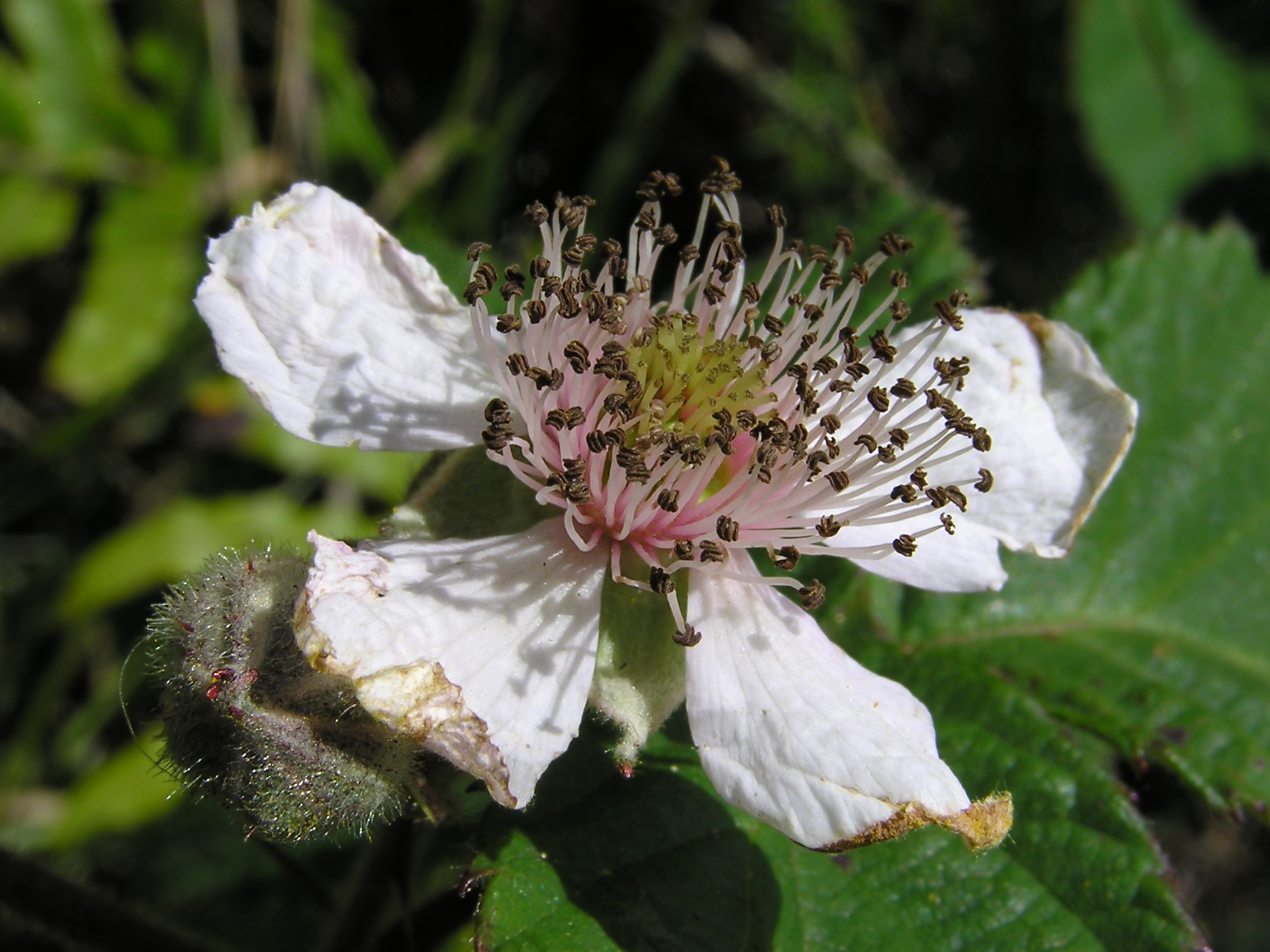 Black berry flower (Rubus fruticosus), Wellington, New Zealand